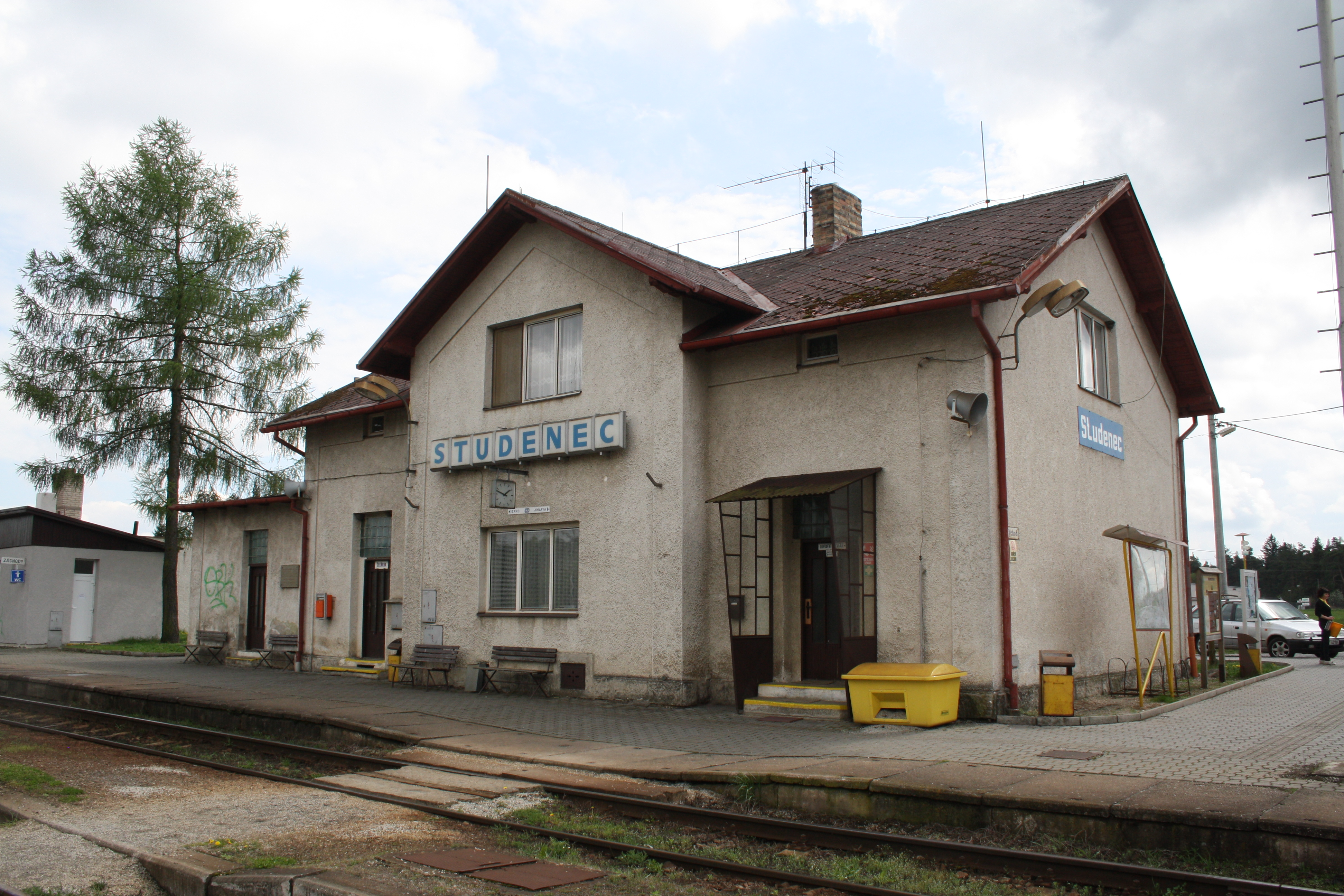 Building of Studenec train station.